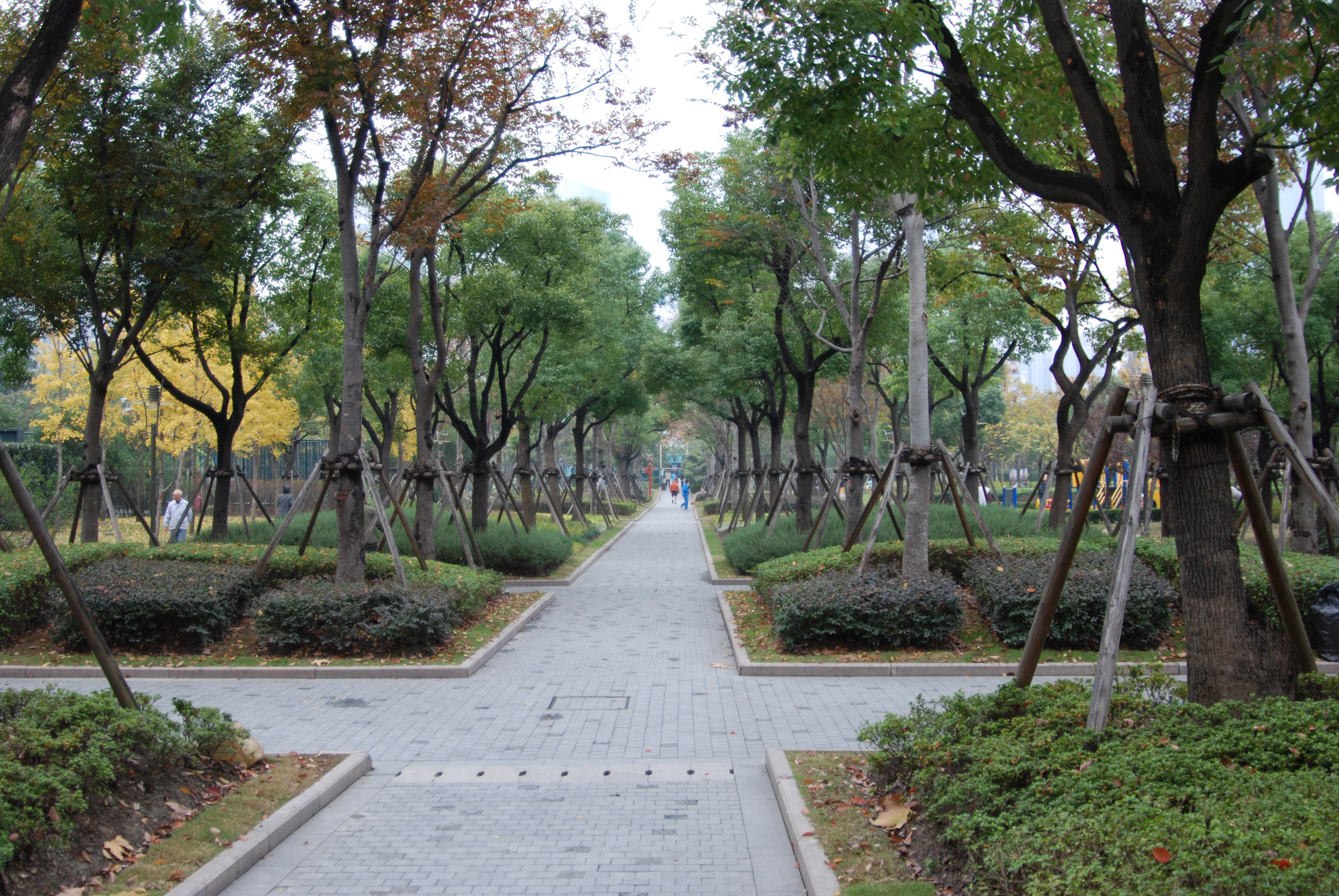 Xujiahui Park